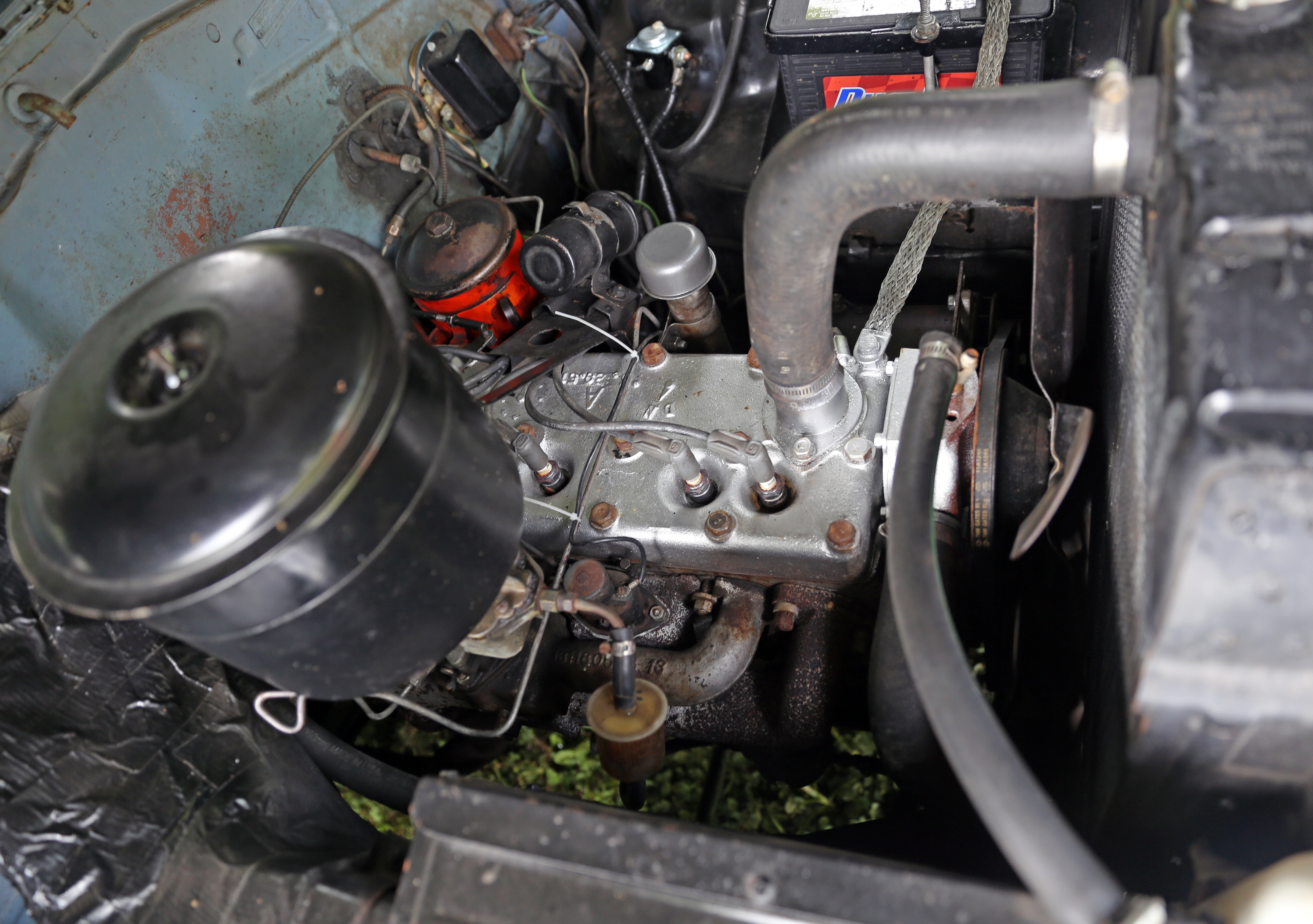 The 3.6-liter flathead-six engine of a 1951 Plymouth Cranbrook sedan. 97hp.